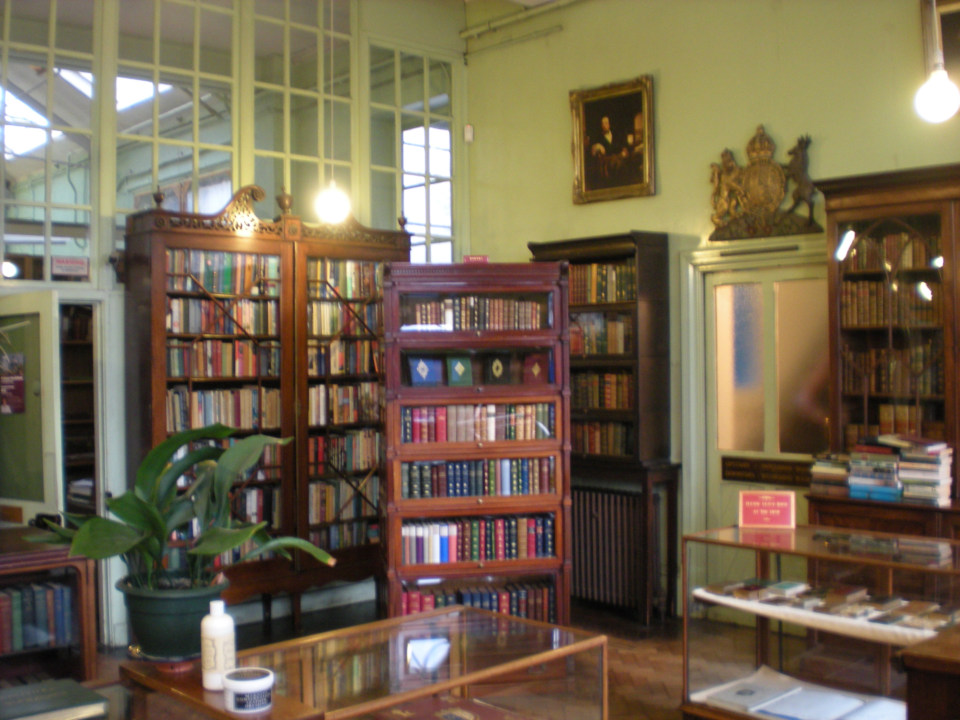 Bookstore in Great Britain